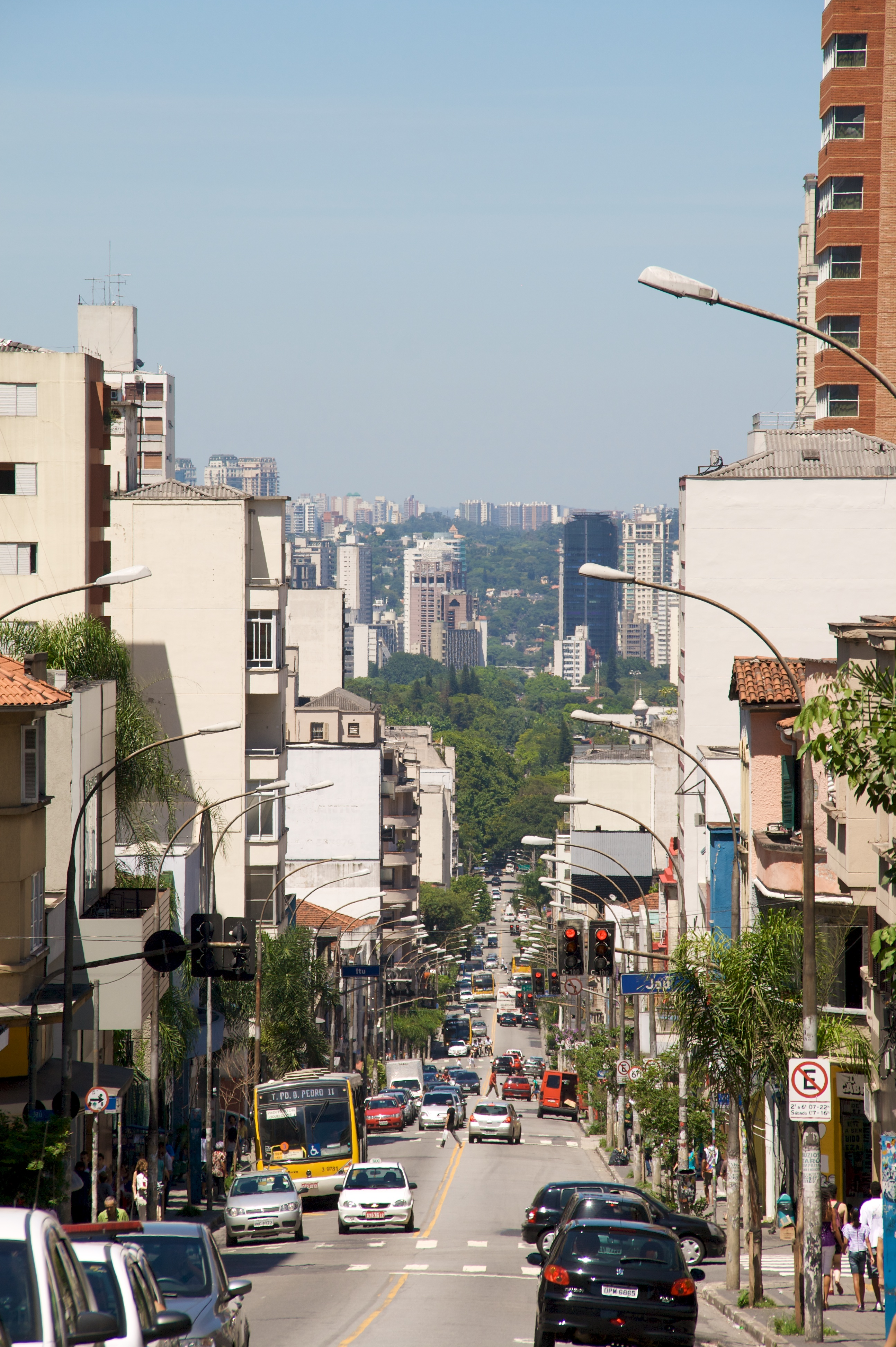 by Egil Fujikawa Nes for Connection Consulting